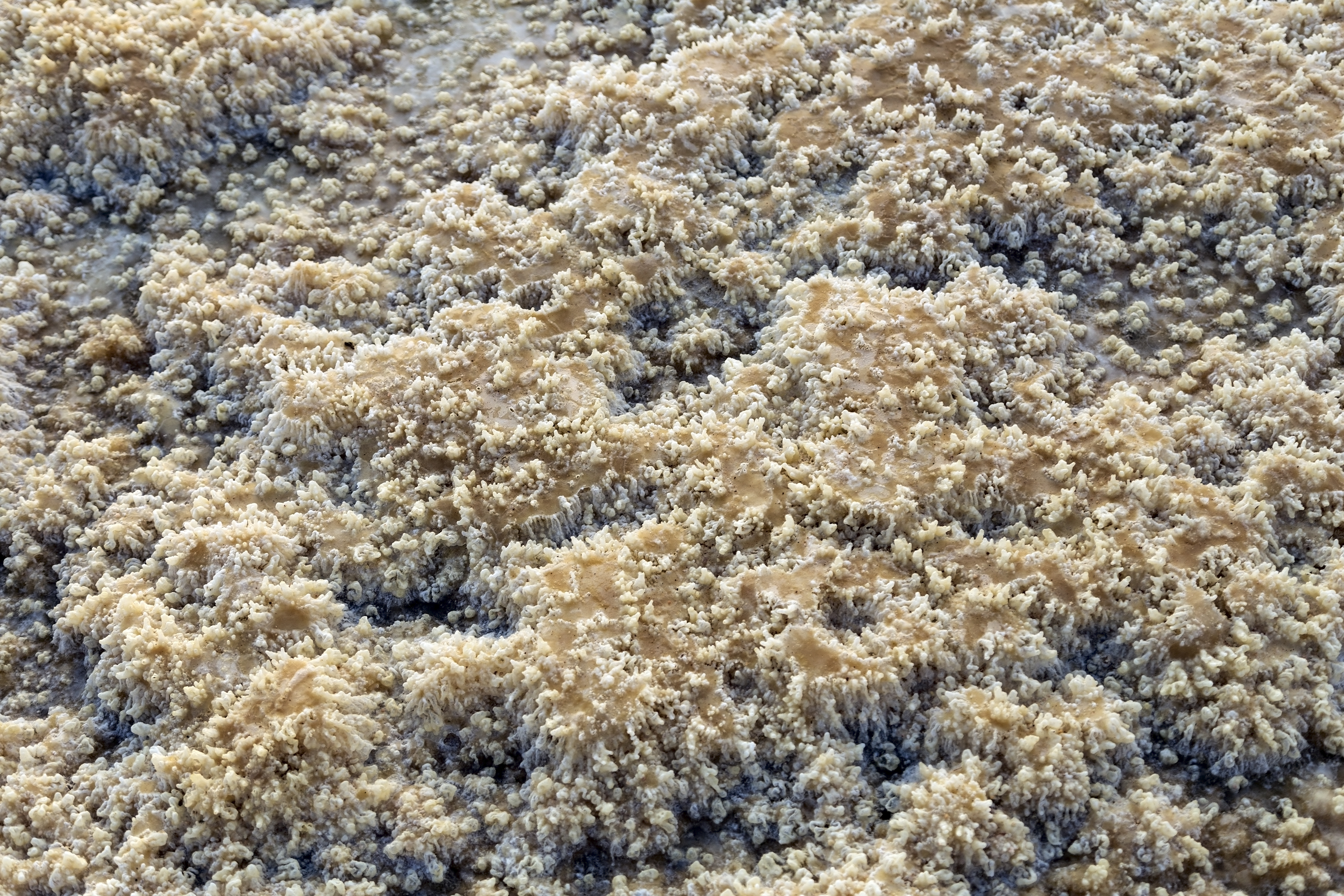 Kavir National Park is a protected ecological zone in northern Iran. It has an area of 4,000 square kilometers. The park is located 120 kilometers south of Tehran and 100 kilometers east of Qom, and it sits on the western end of one of Iran's two major deserts, the Dasht-e Kavir. Siahkuh, a large, semi-circular rock outcropping sits in roughly the park's center.